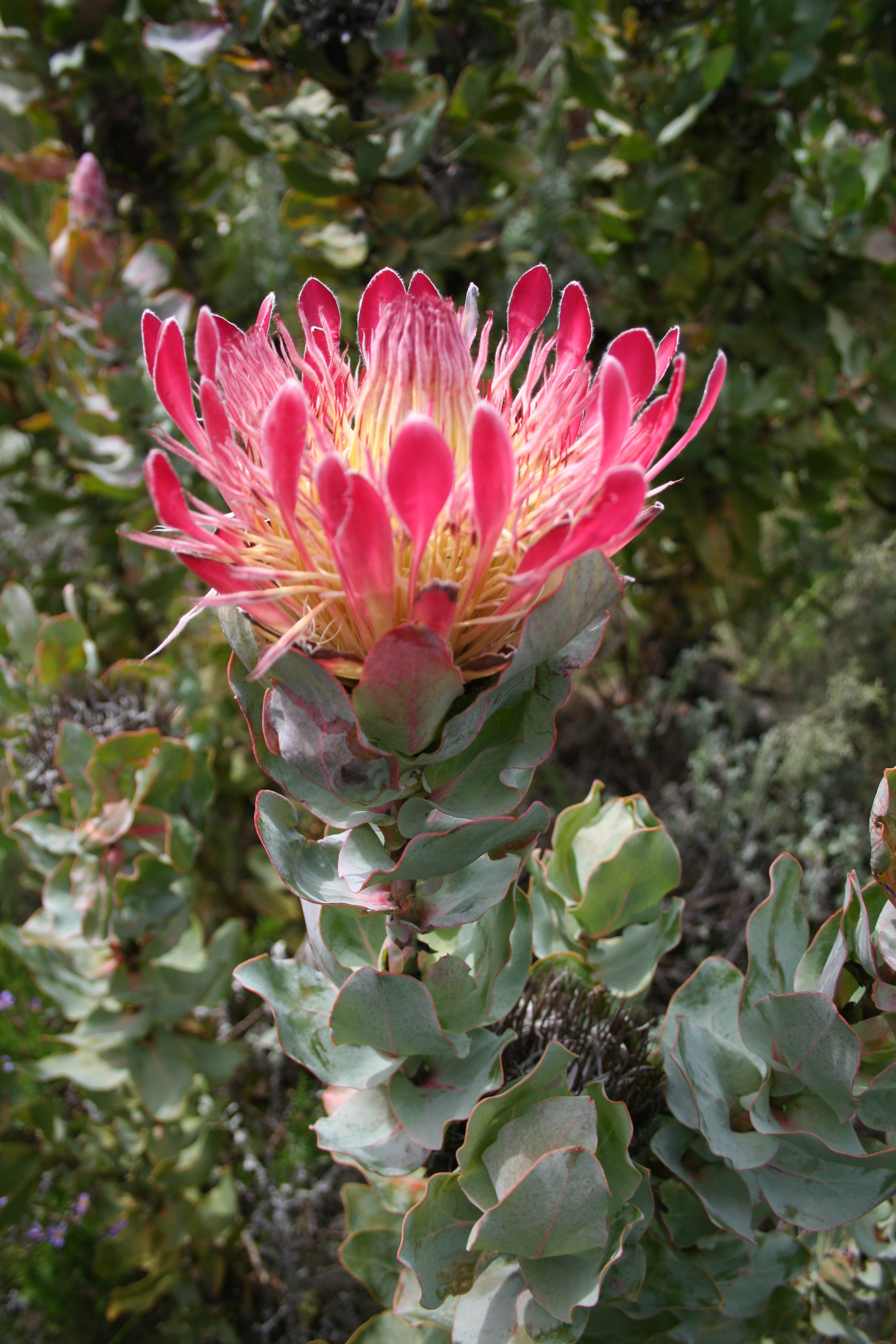 Protea eximia, Helderberg Nature Reserve, South Africa